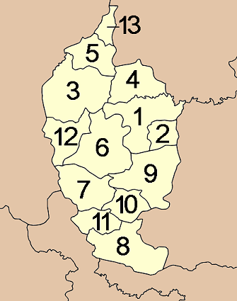 Map of Maha Sarakham province, Thailand, with the districts (Amphoe) numbered. Mueang Maha Sarakham (อำเภอเมืองมหาสารคาม) Kae Dam (อำเภอแกดำ) Kosum Phisai (อำเภอโกสุมพิสัย) Kantharawichai (อำเภอกันทรวิชัย) Chiang Yuen (อำเภอเชียงยืน) Borabue (อำเภอบรบือ) Na Chueak (อำเภอนาเชือก) Phayakkhaphum Phisai (อำเภอพยัคฆภูมิพิสัย) Wapi Pathum (อำเภอวาปีปทุม) Na Dun (อำเภอนาดูน) Yang Sisurat (อำเภอยางสีสุราช) Kut Rang (กิ่งอำเภอกุดรัง) Chuen Chom (กิ่งอำเภอชื่นชม)